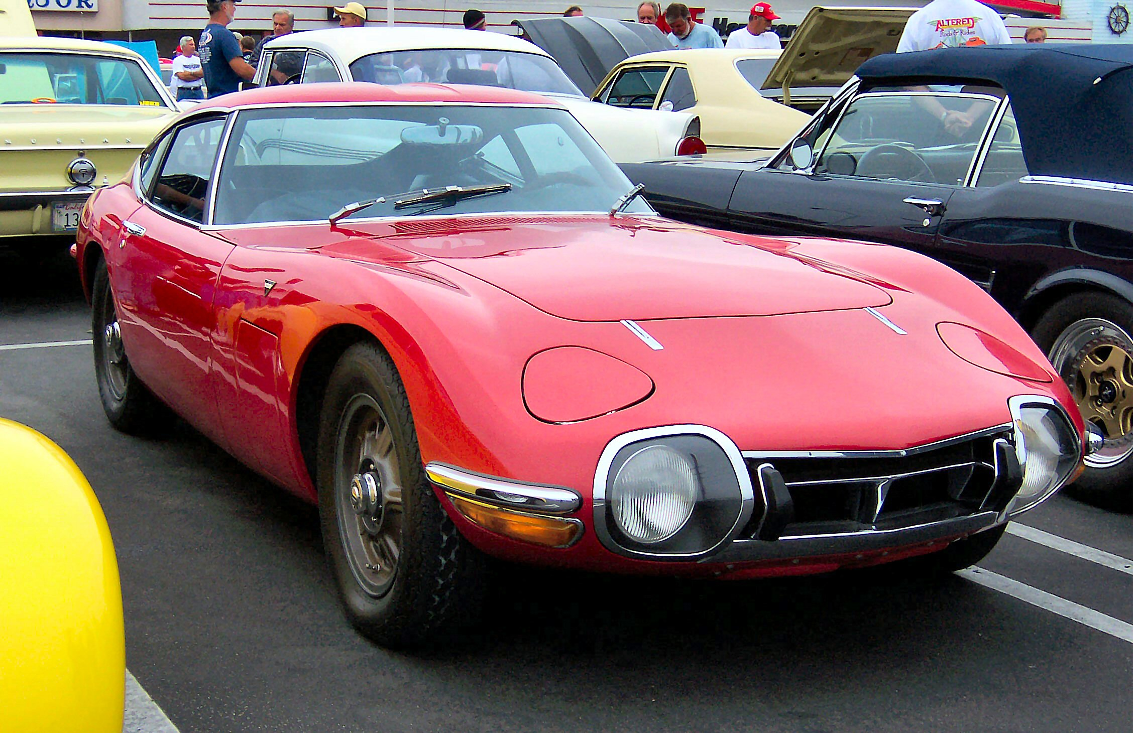 Toyota 2000GT at the weekly Donut Derelicts car show in Huntington Beach, California.